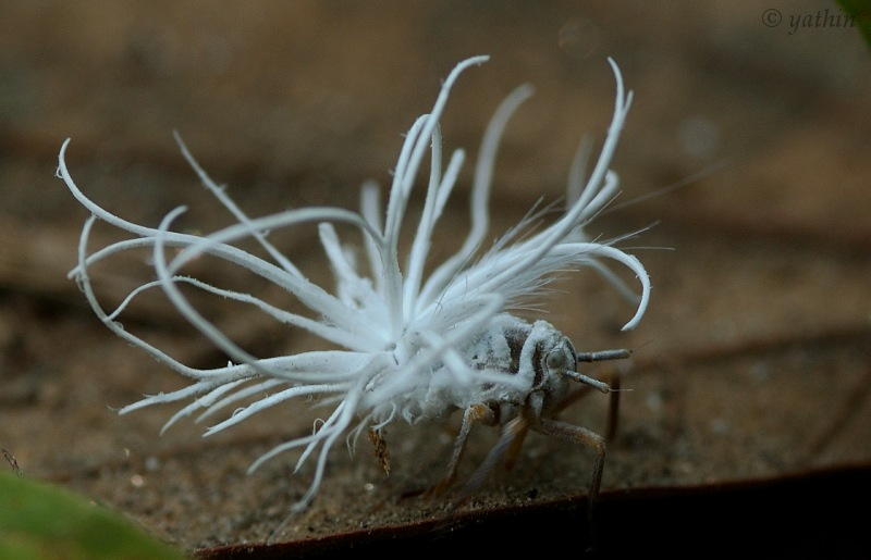 Probable Flatid Nymph from Nameri, Assam, India